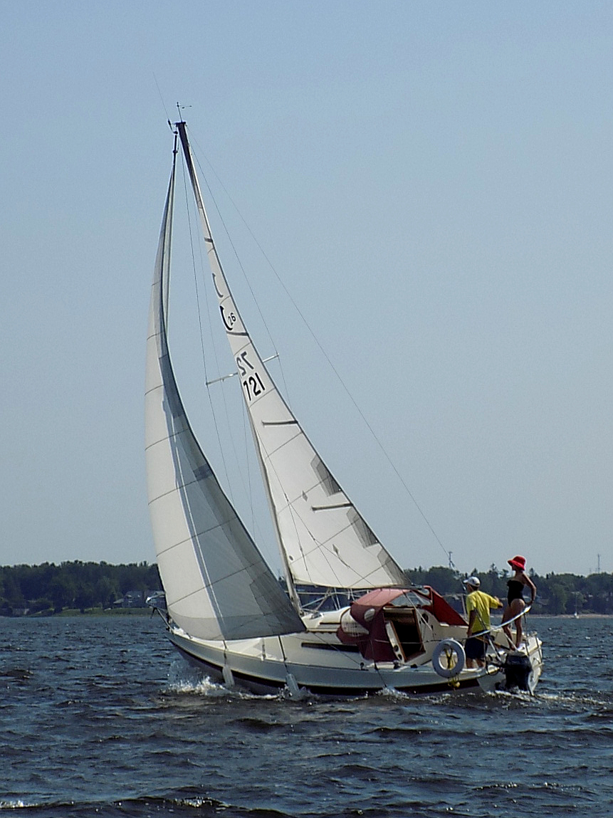 A Tanzer 26 sailboat named Archimedes.